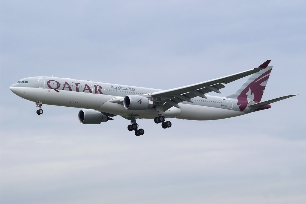 Qatar Airways Airbus A330-300 A7-AEH at Frankfurt Airport